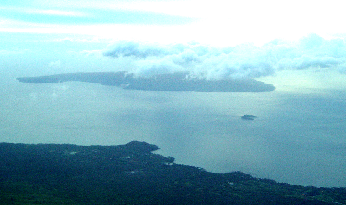 Aerial photo of Makena (Maui) and the islands of Molokini and Kahaoolawe